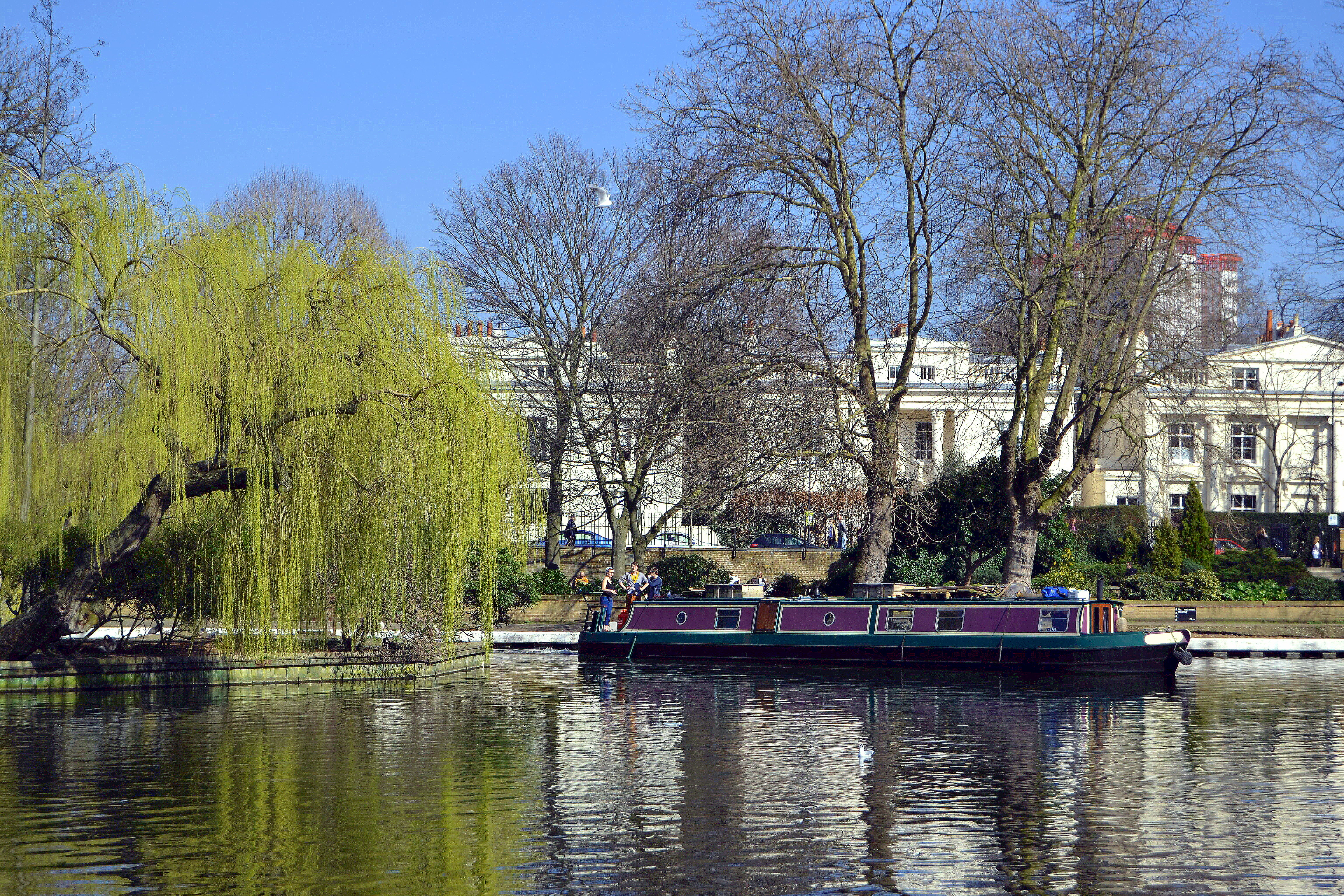 Early Spring in Little Venice, London